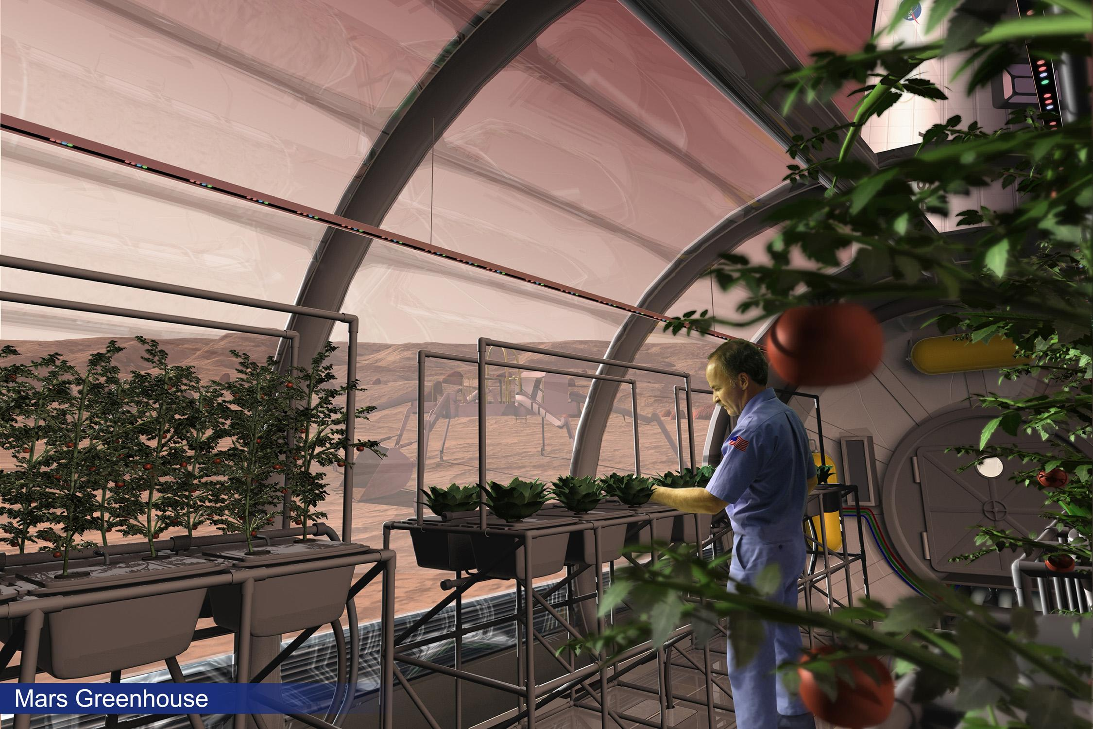 A conceptual rendering of a greenhouse on the surface of Mars.